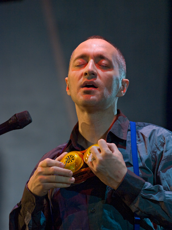 Theo Bleckmann, moers festival 2008